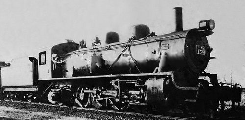 North China Transport locomotive Mikana158x